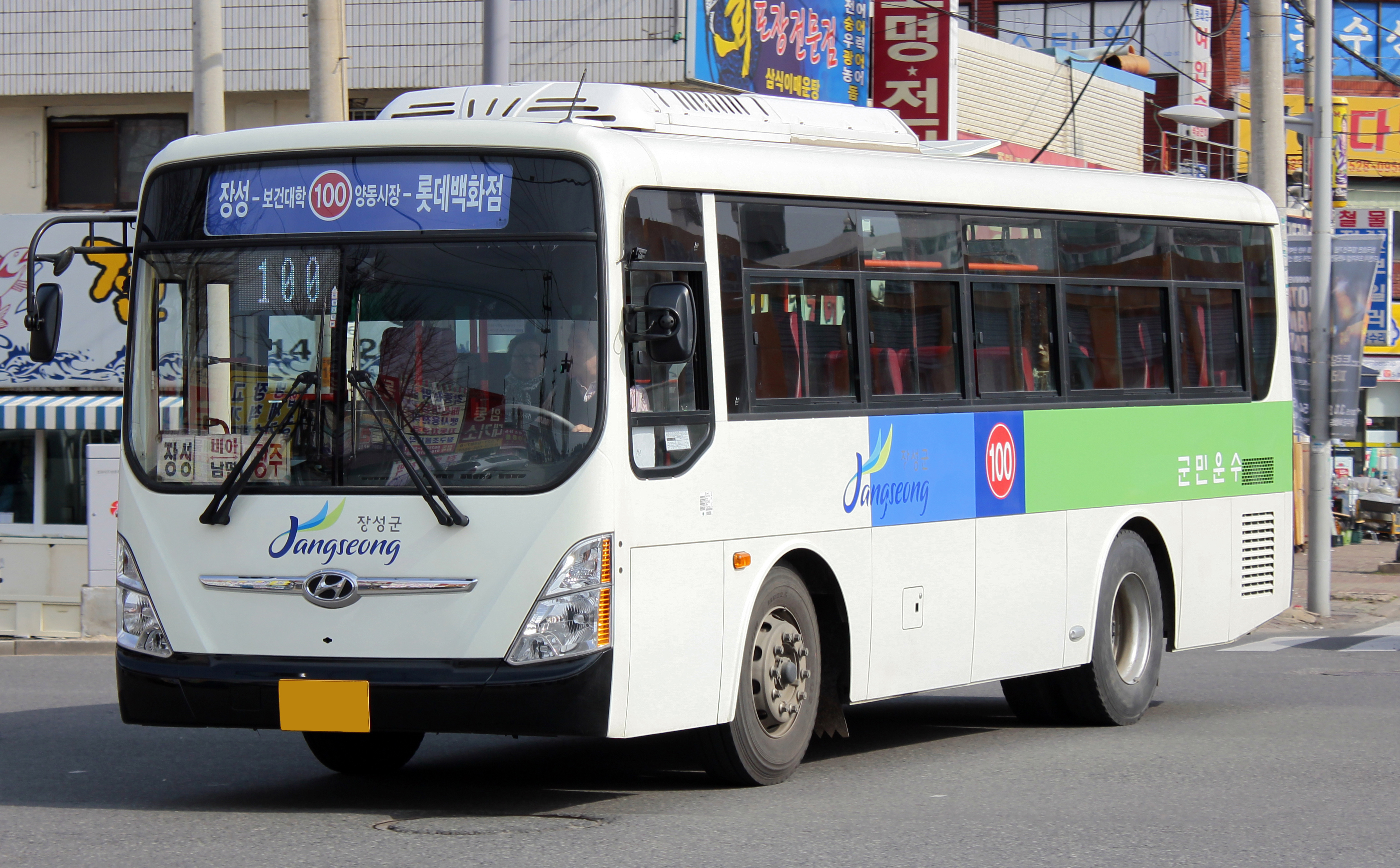 Jangseong Bus Route 100 Hyundai Green city Motorcoach